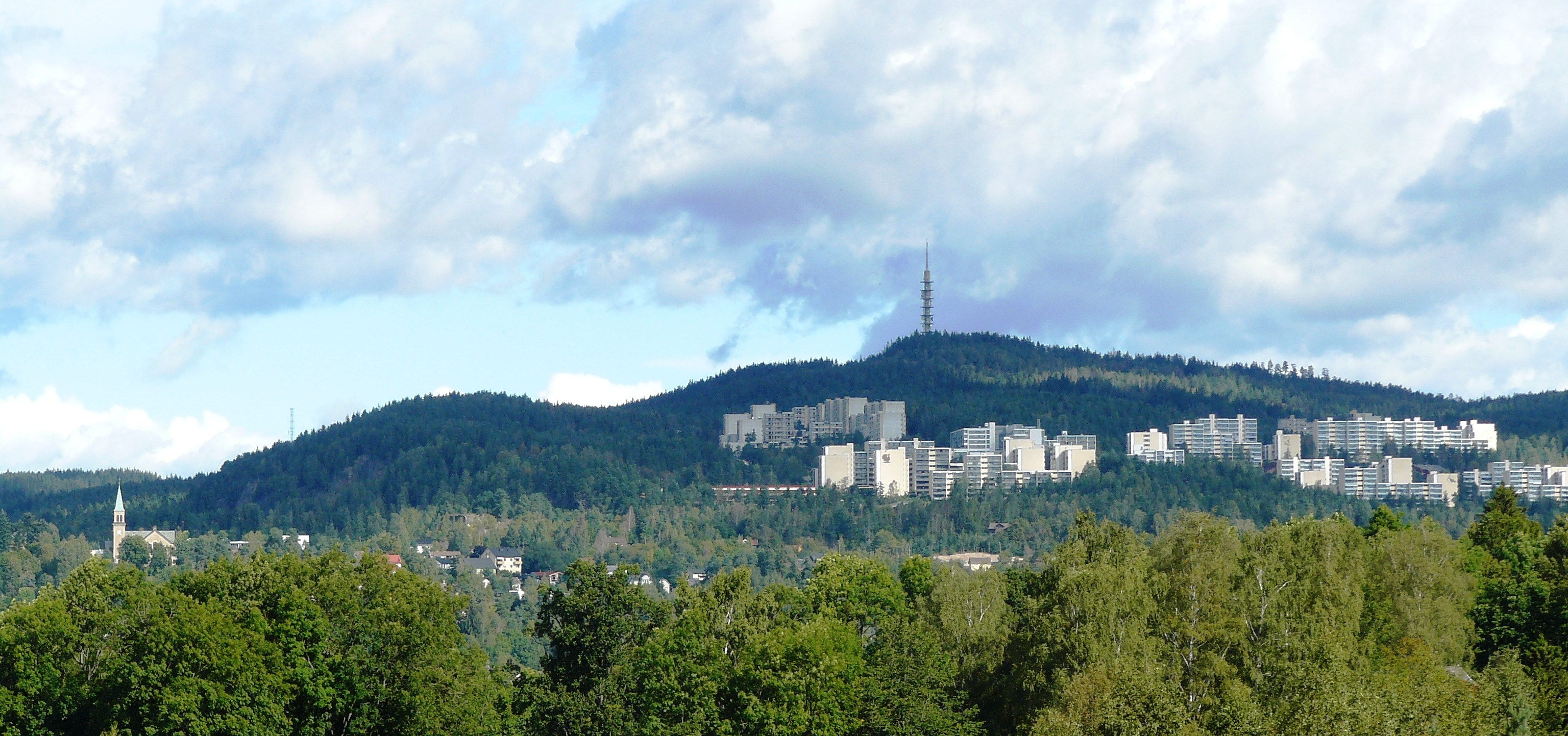 Romsås, Oslo. Satellite town Romsås in Oslo, Norway.